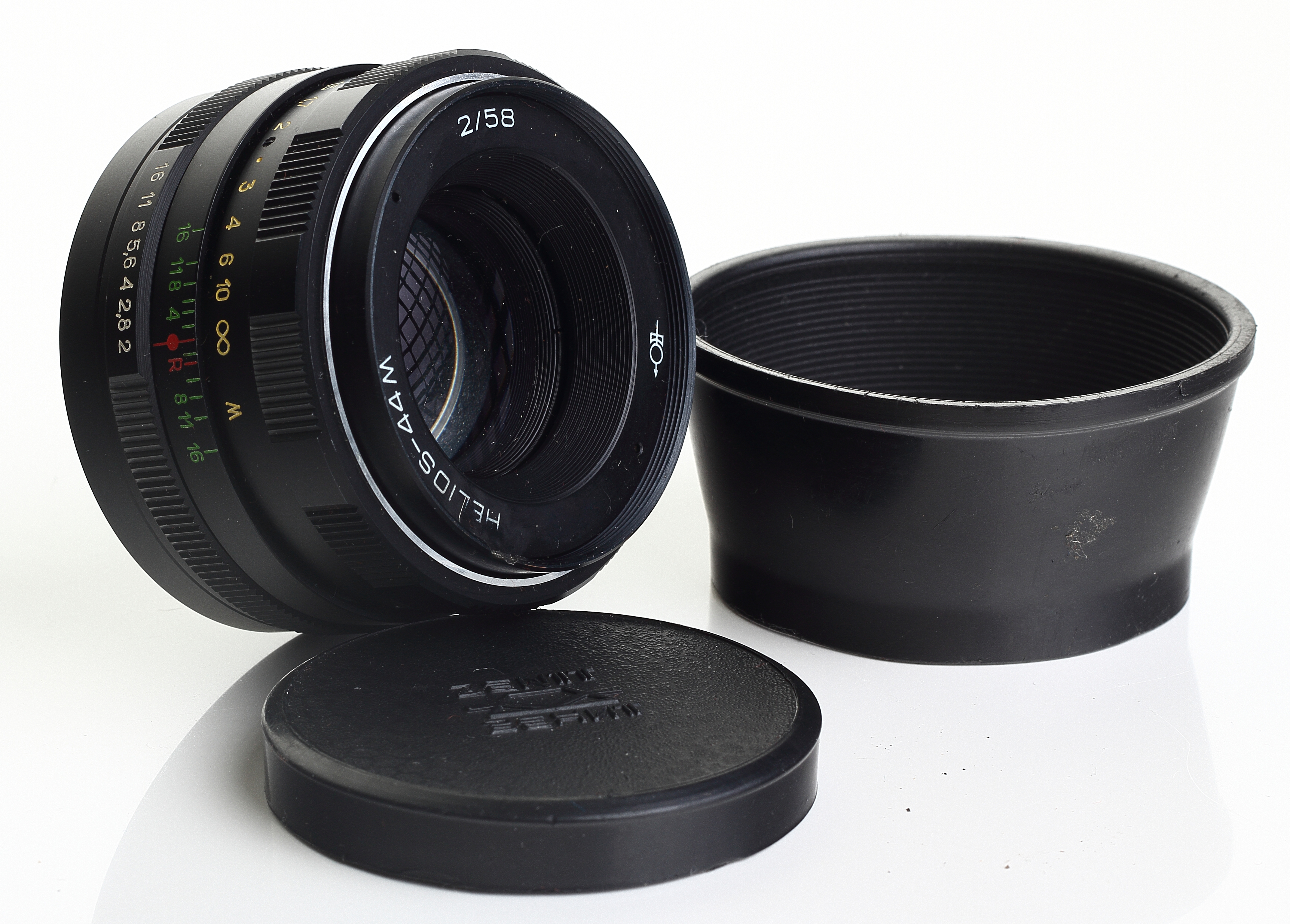 Camera lens "Helios 44 M"